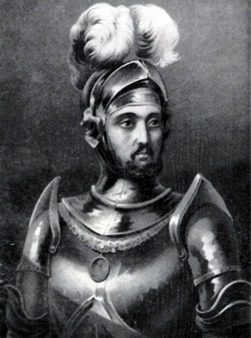 Diego Colón, first son of Christopher Columbus, 16th century.